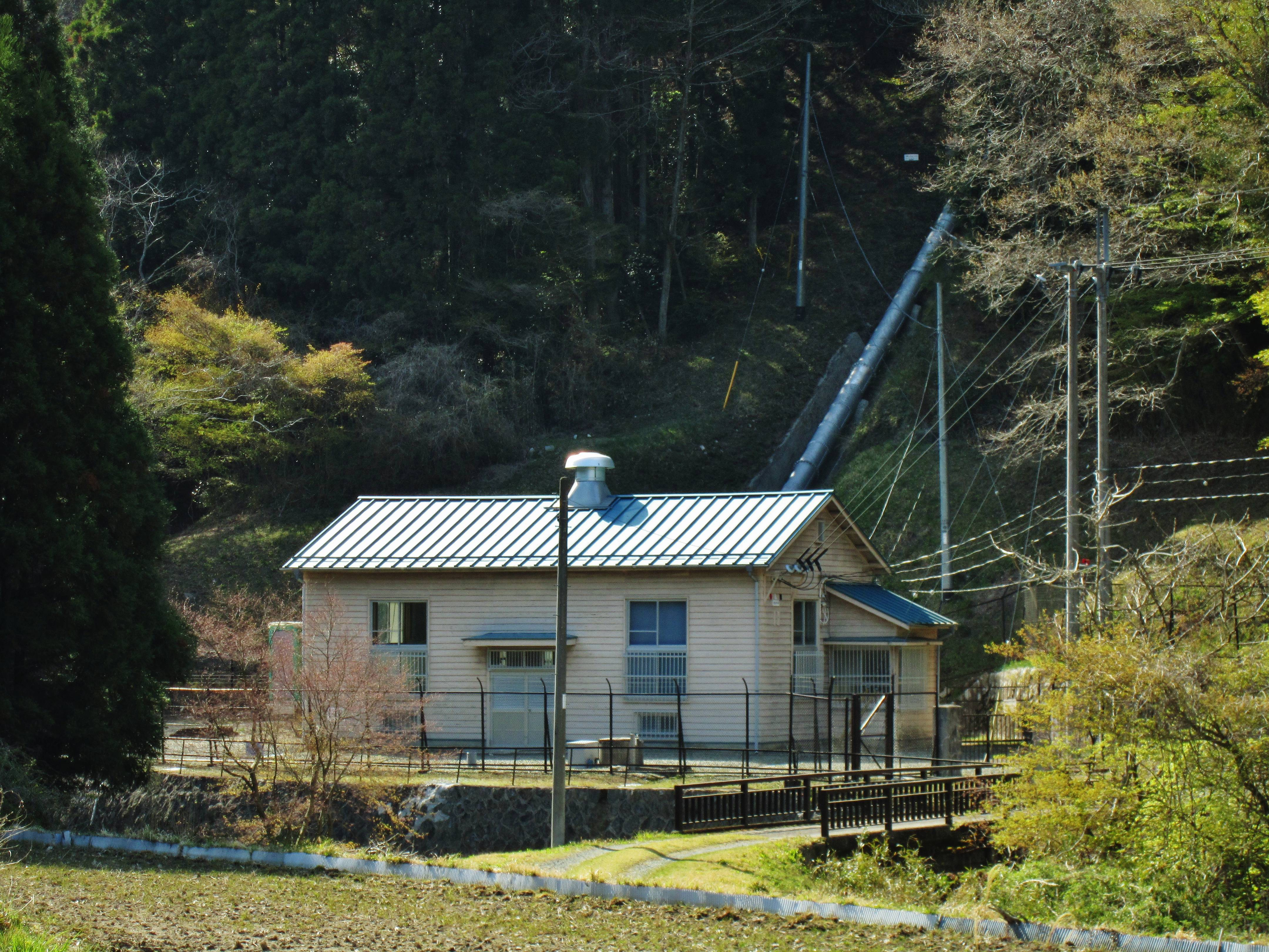 Hananukigawa II hydroelectric power station.